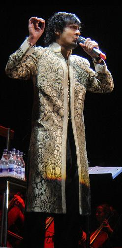 Sonu Nigam at Rafi Resurrected Concert 2008, at Royal Albert Hall, London.